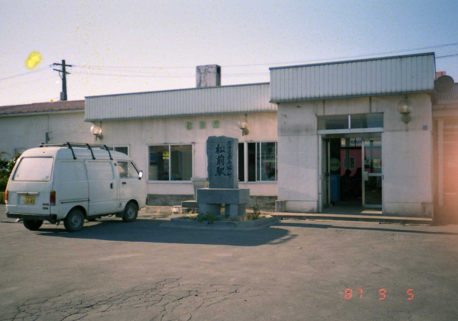 JRH Mastumae Station